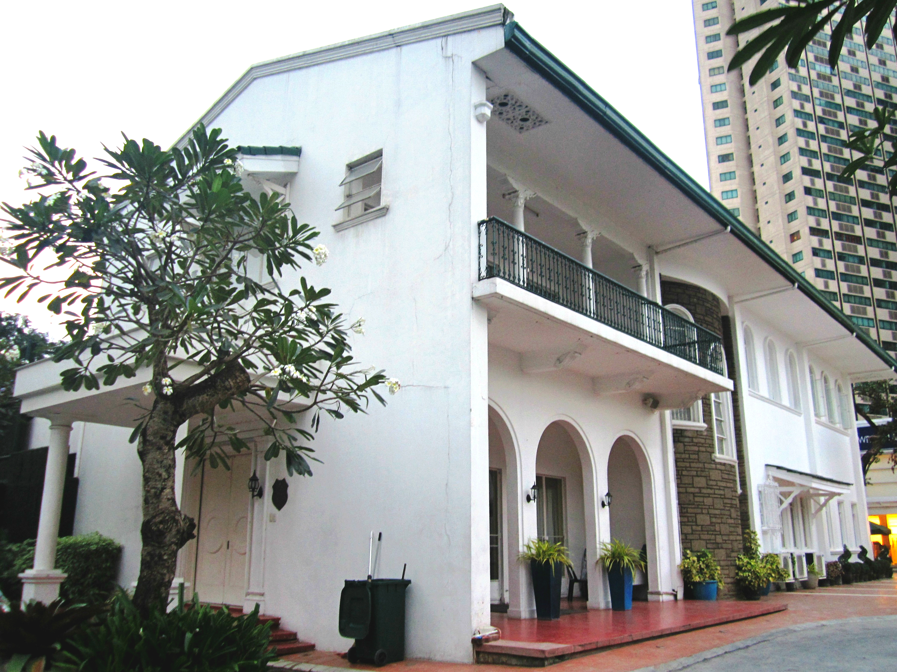 House of the late president, Jose P. Laurel, in Mandaluyong City.